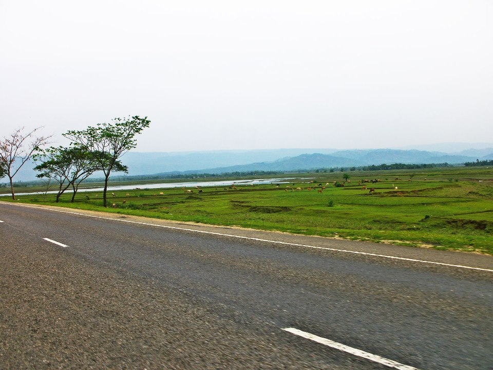 30 km far from jaflong, sylhet, Bangladesh